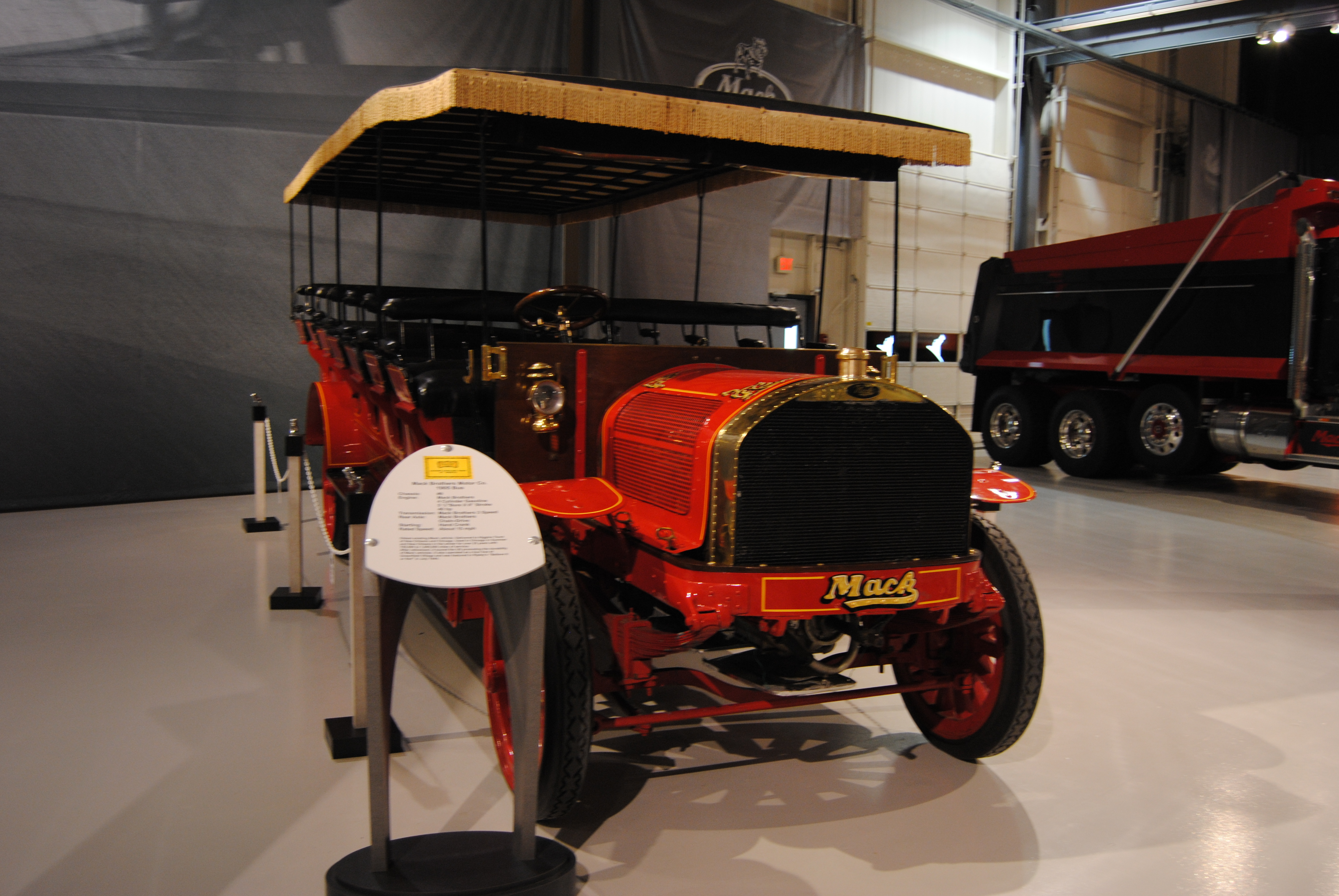 Mack Truck Historical Museum, Allentown, Pennsylvania